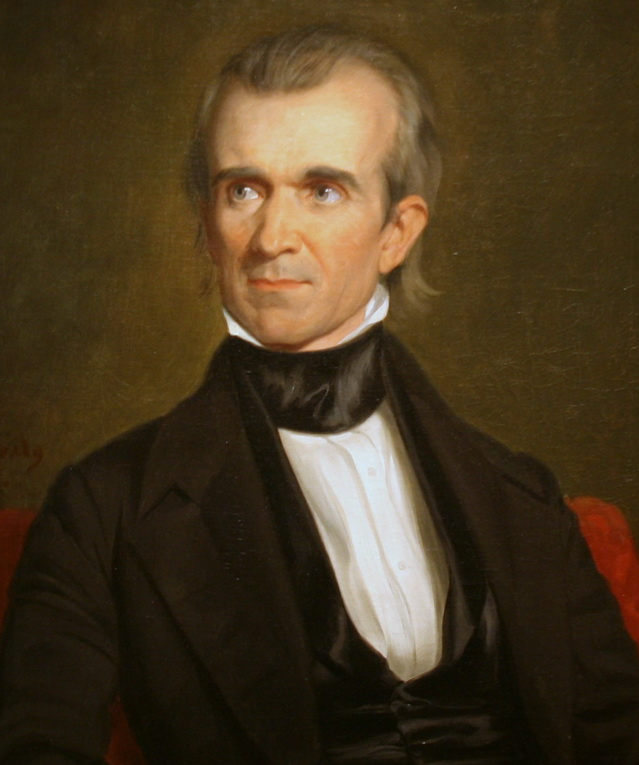 James K. Polk